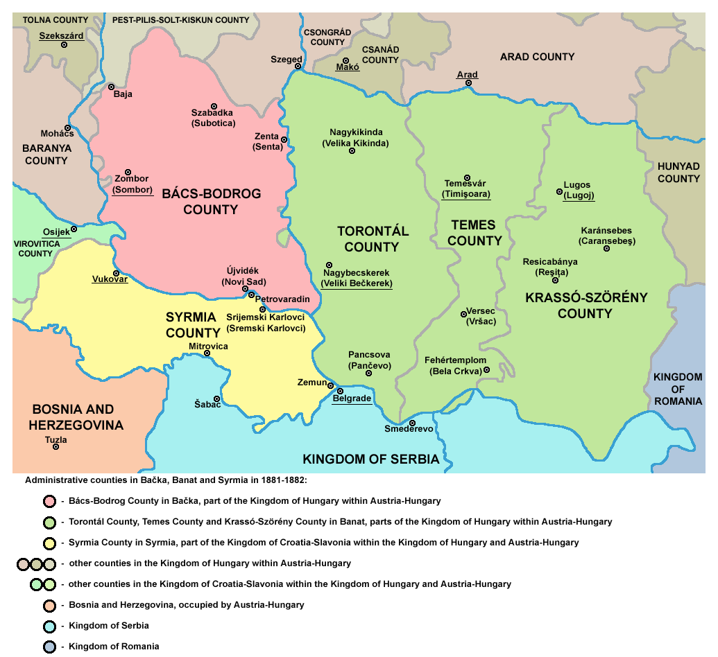 Historic map of counties in Bačka, Banat and Syrmia in 1881-1882.